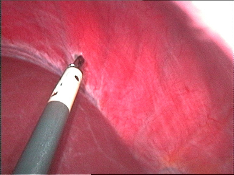 coagulation of endometriosis at thoracic diaphragm